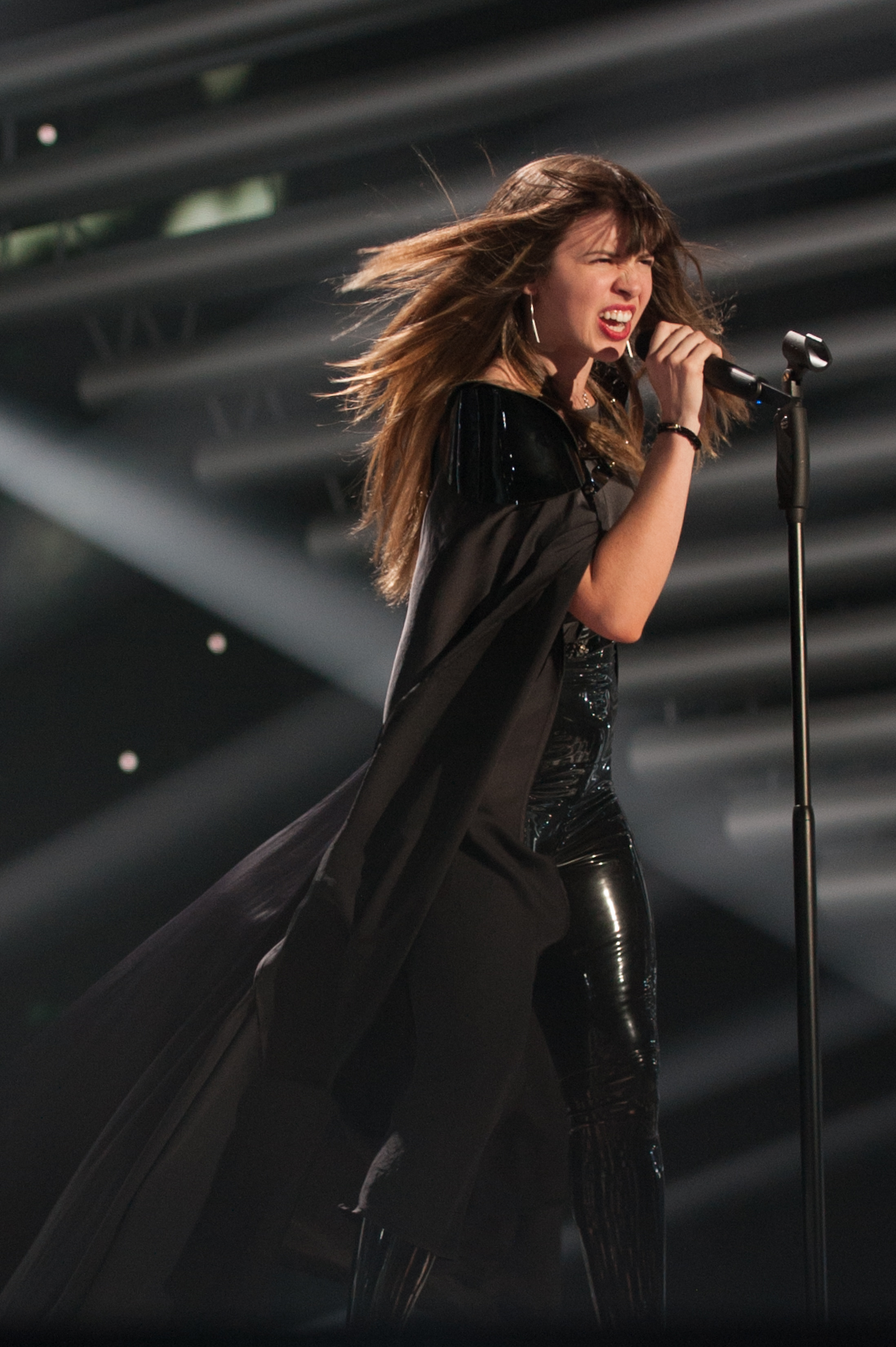 Eurovision Song Contest Vienna 2015: Leonor Andrade